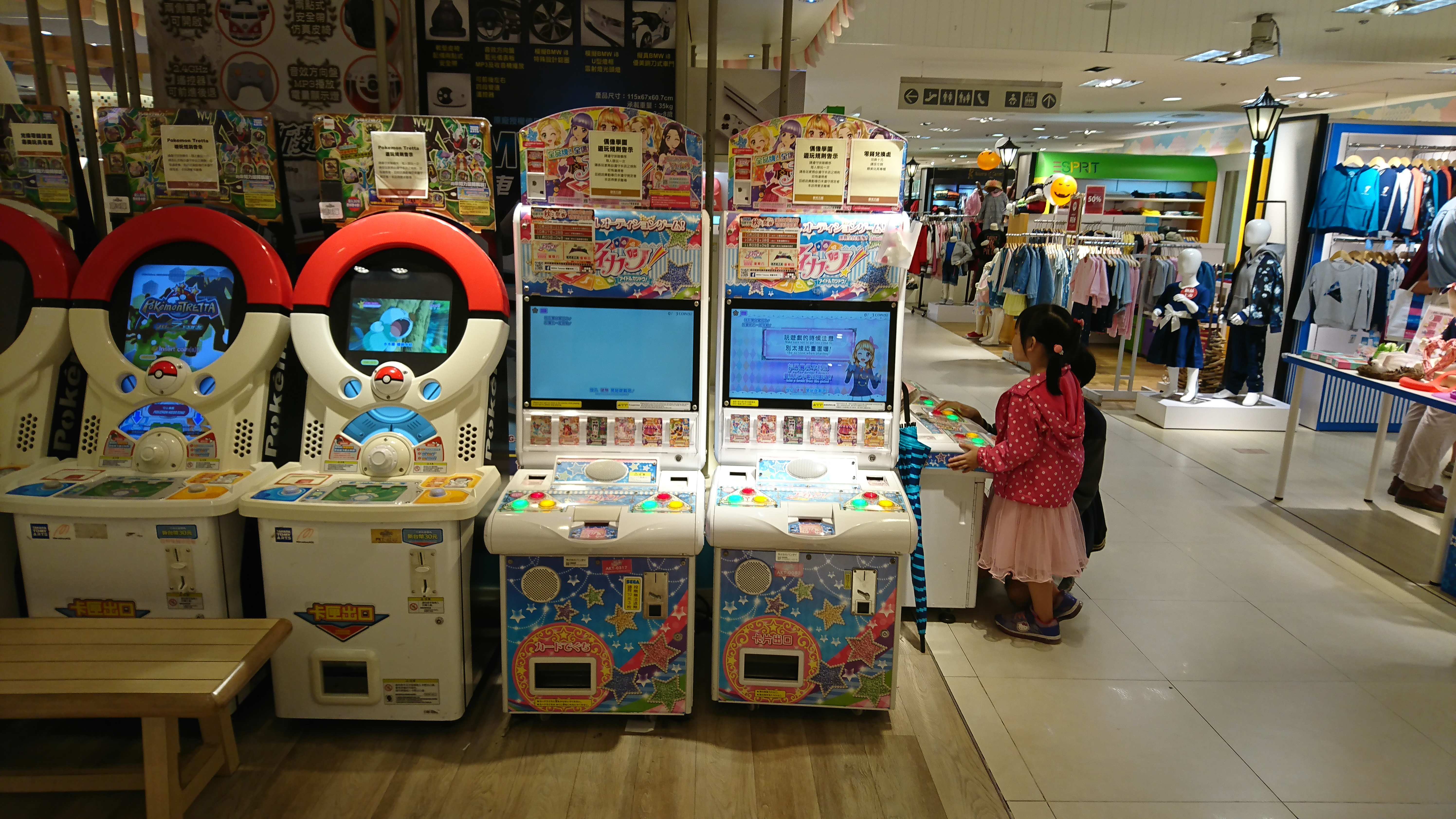 Kids Floor on the 8th floor of Taipei Station Store, Shin Kong Mitsukoshi, Taipei, Taiwan. The parent and the child were playing the arcade game cabinets, called "Aikatsu!".